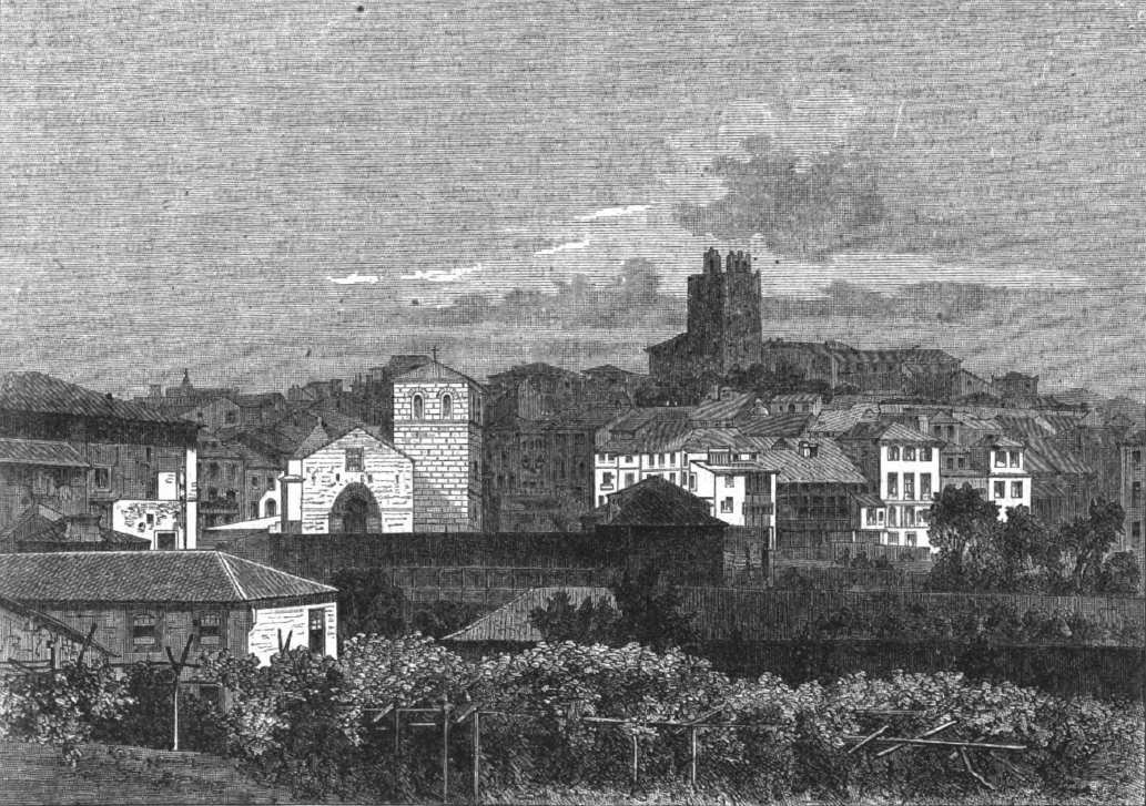 View of Lamego, Portugal, in the 19th century